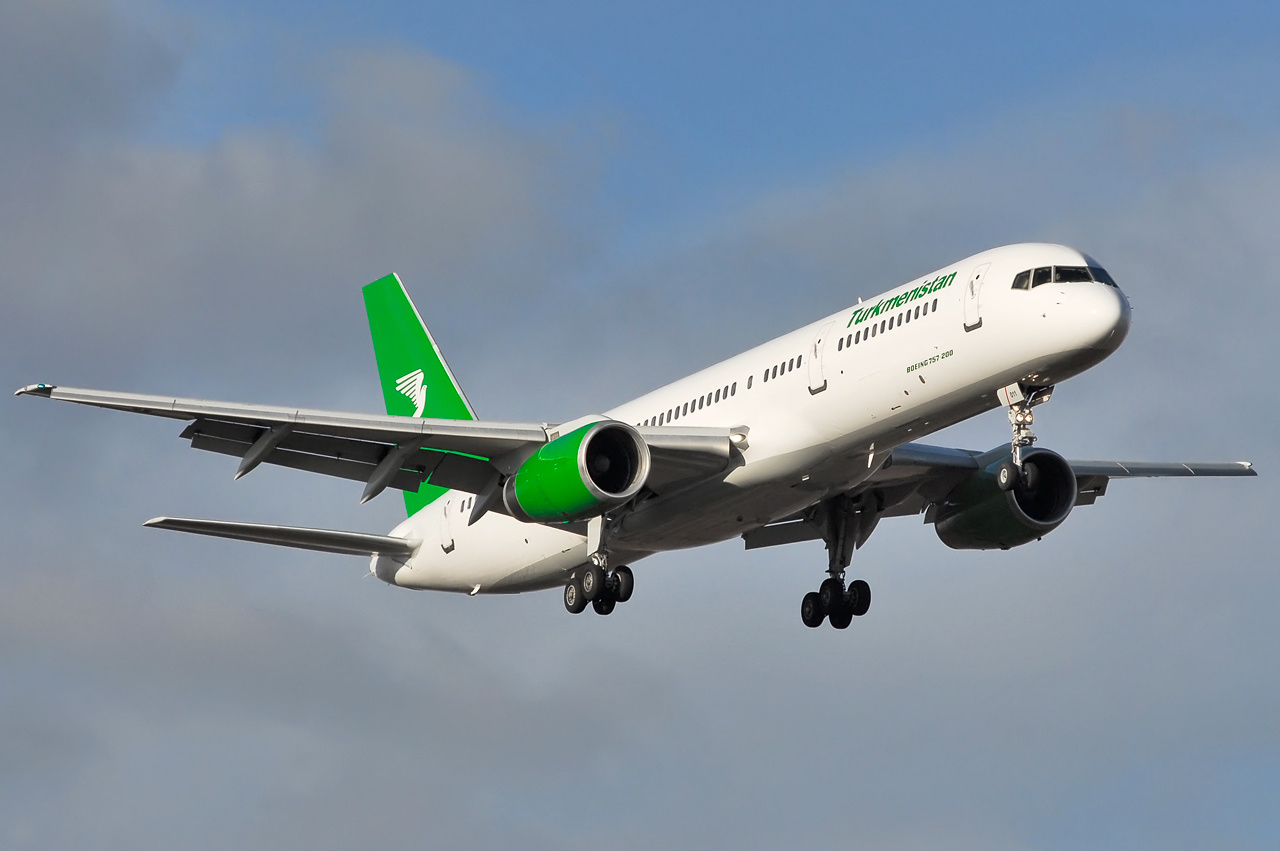 Turkmenistan Airlines Boeing 757-200. Identification : EZ-A011 (cn 28336/725). At Moscow - Domodedovo (DME / UUDD).